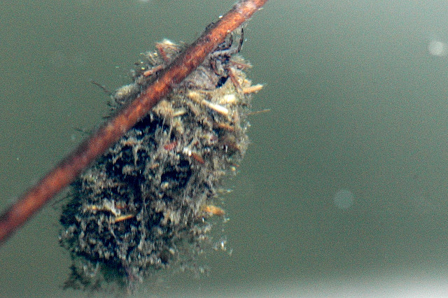 Picture taken in Commanster, Belgian High Ardennes . Species: Limnephilus stigma larva